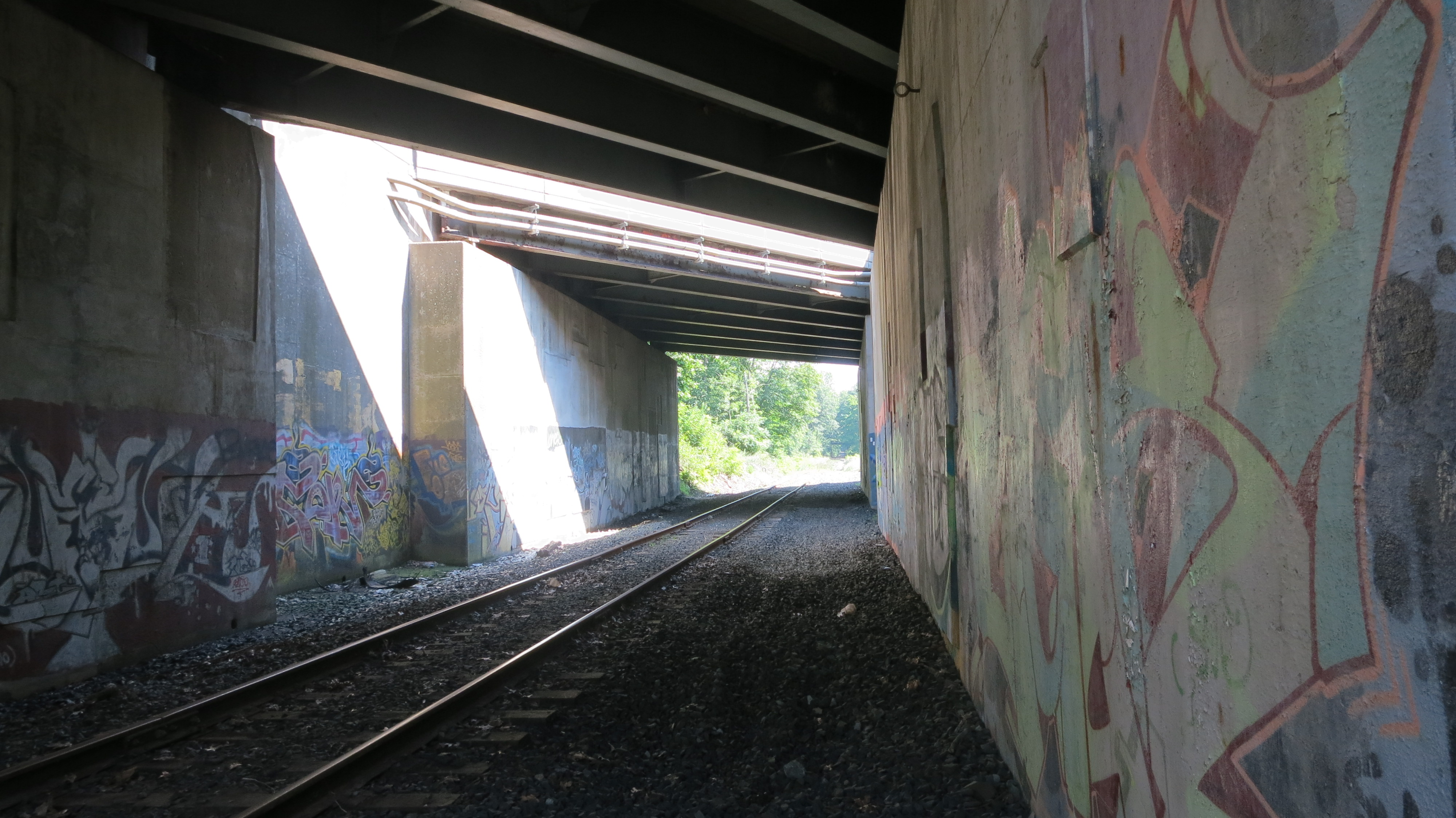 The Metacomet-Monadnock Trail and the Pioneer Valley Railroad (ex-New Haven Railroad Holyoke Branch) pass beneath the Mass Pike in Westfield, Massachusetts